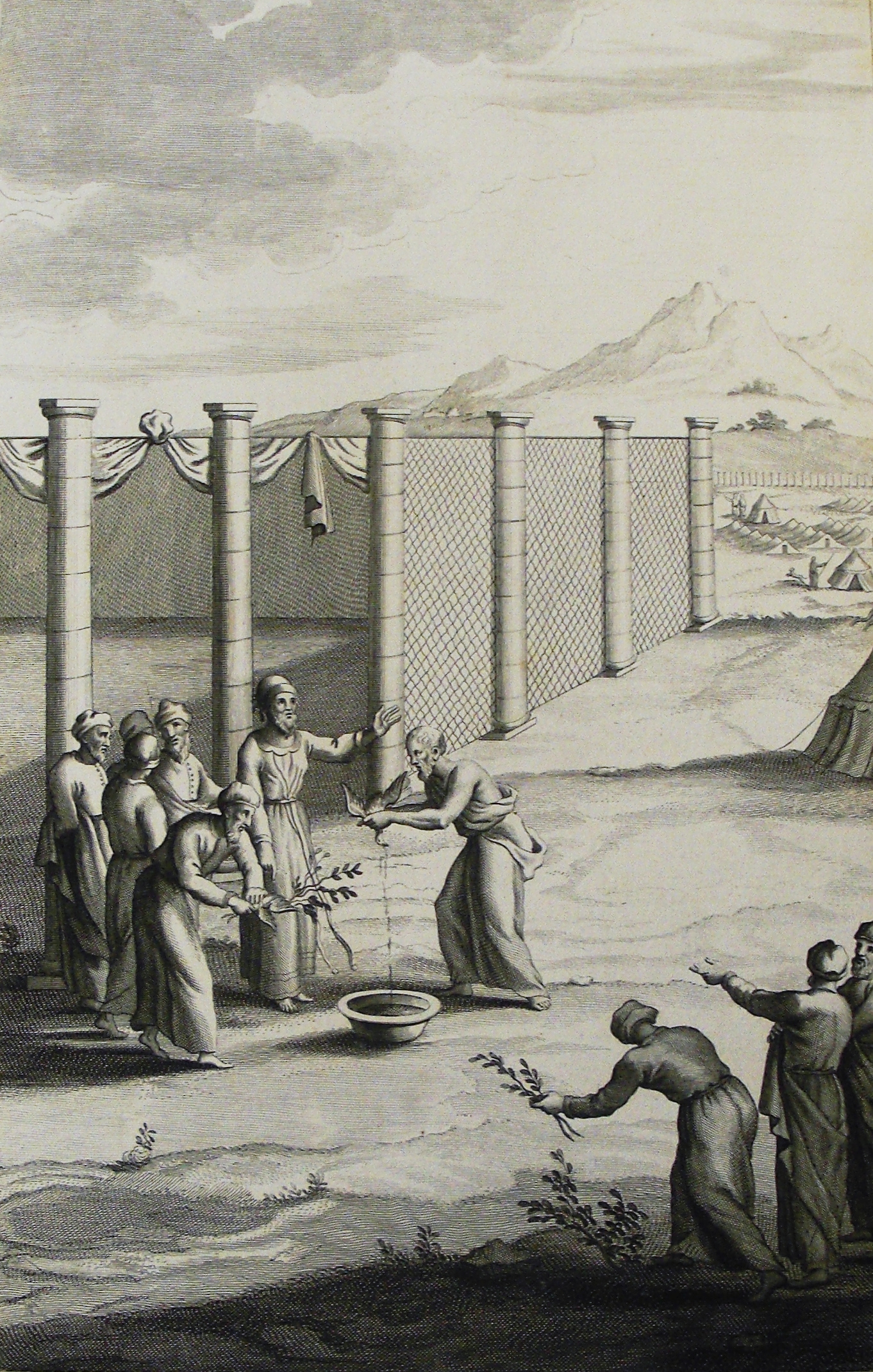 A print from the Phillip Medhurst Collection of Bible illustrations in the possession of Revd. Philip De Vere at St. George’s Court, Kidderminster, England.